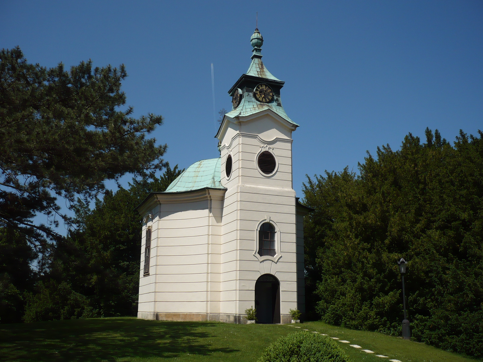 Kastle Karlova Koruna v Chlumci nad Cidlinou in the Czech Republic